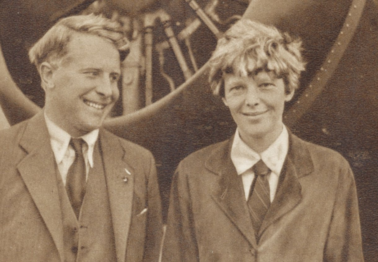 "Et enestående bilde av to flygerstørrelser, Balchen og Amelia Earhart like før hun startet fra Teterboro til Harbor Grace på Newfoundland, den første etappen i den planlagte Atlanterhavsflygingen"/"An unique picture of two aviation greats, Balchen and Amelia Earhart just before she started from Teterboro to Harbor Grace, Newfoundland, the first leg of the planned transatlantic flight." Teterboro, May 1932